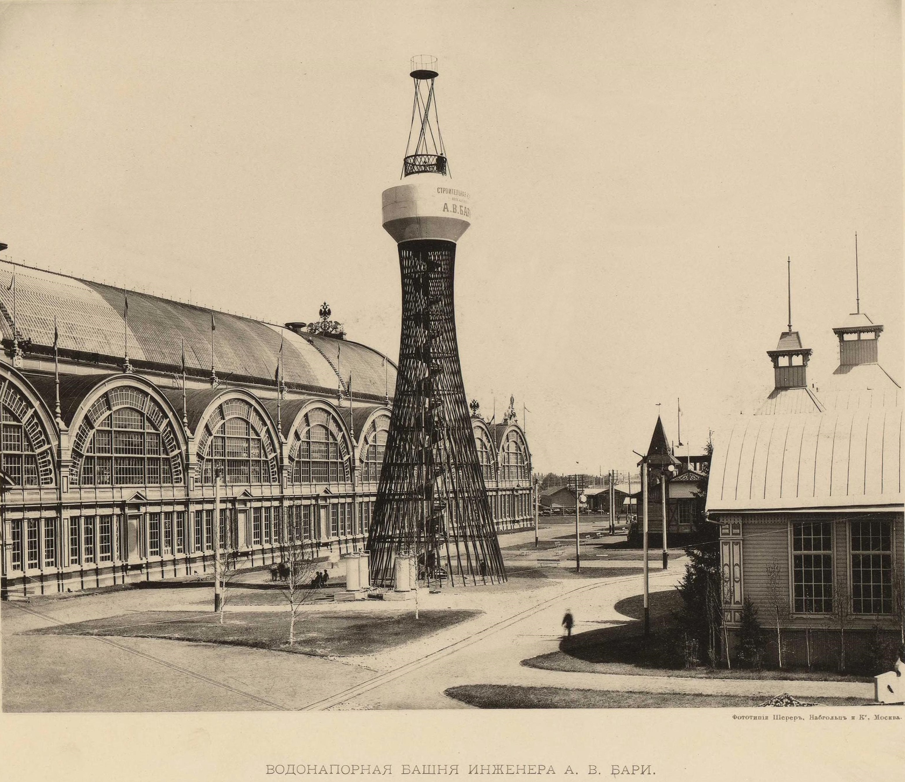 The Hyperboloid water tower - the world's first steel diagrid shell structure by the great Russian engineer and scientist Vladimir Shukhov (1853-1939) in 1896. The All-Russia industrial and art exhibition 1896 in Nizhny Novgorod.